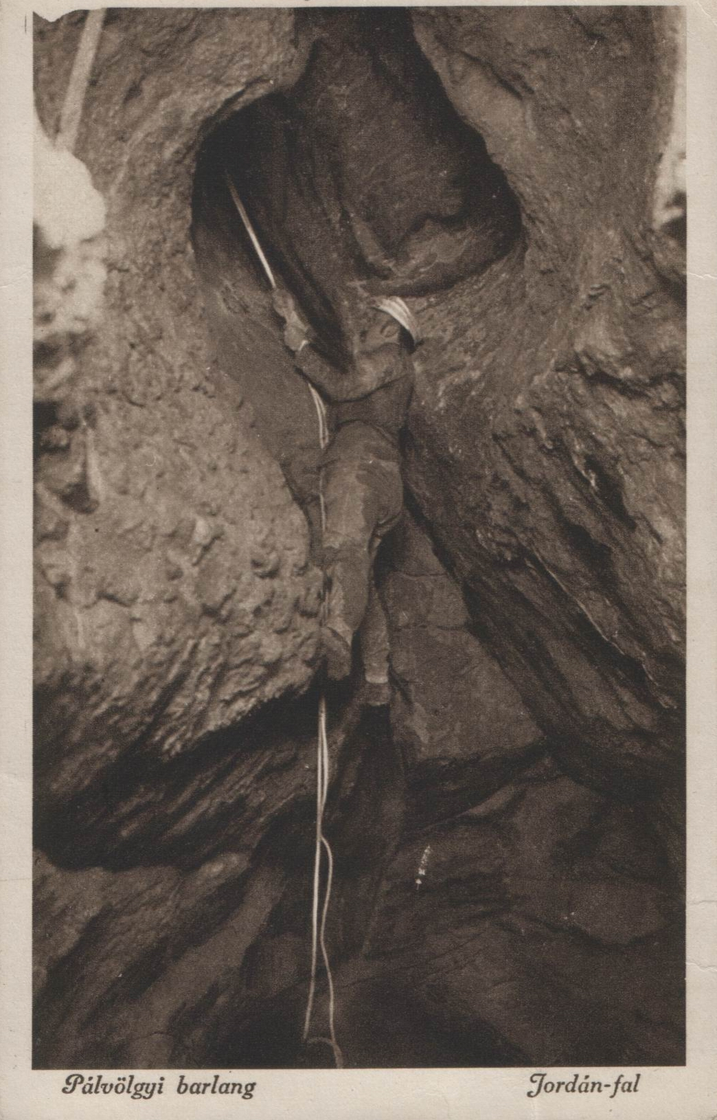 Károly Jordán on the Jordán Wall in Pál-völgy Cave